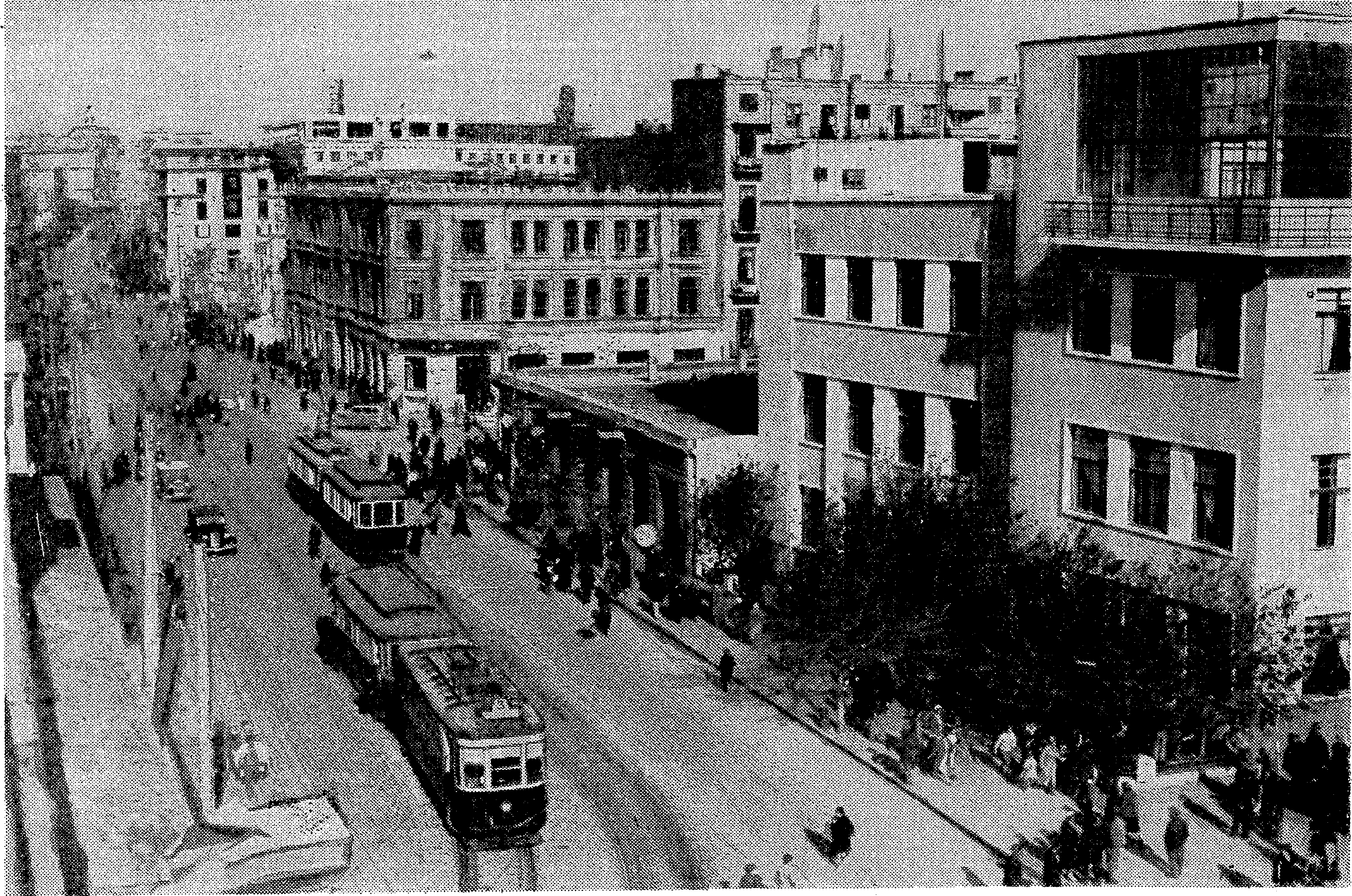 Kirov Avenue, Baku, with the Drama Theatre on the right. This fine Russian city is the headquarters of the Soviet military defence of the oil centre. (Evening Post, 25 July 1941)